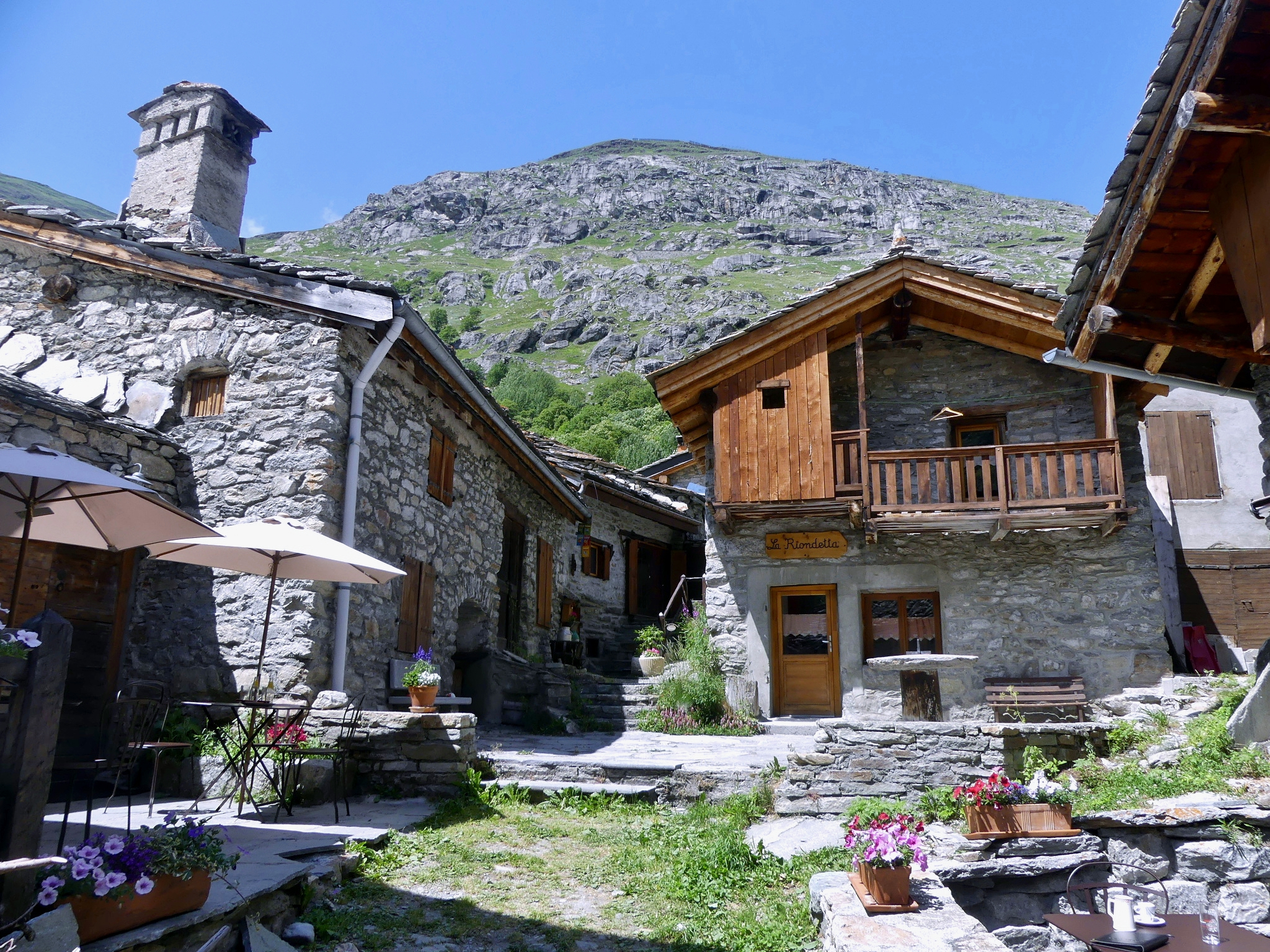 Sight of mountain houses made of stone and wood in Bonneval-sur-Arc, last village of the high Maurienne valley, Savoie, France.